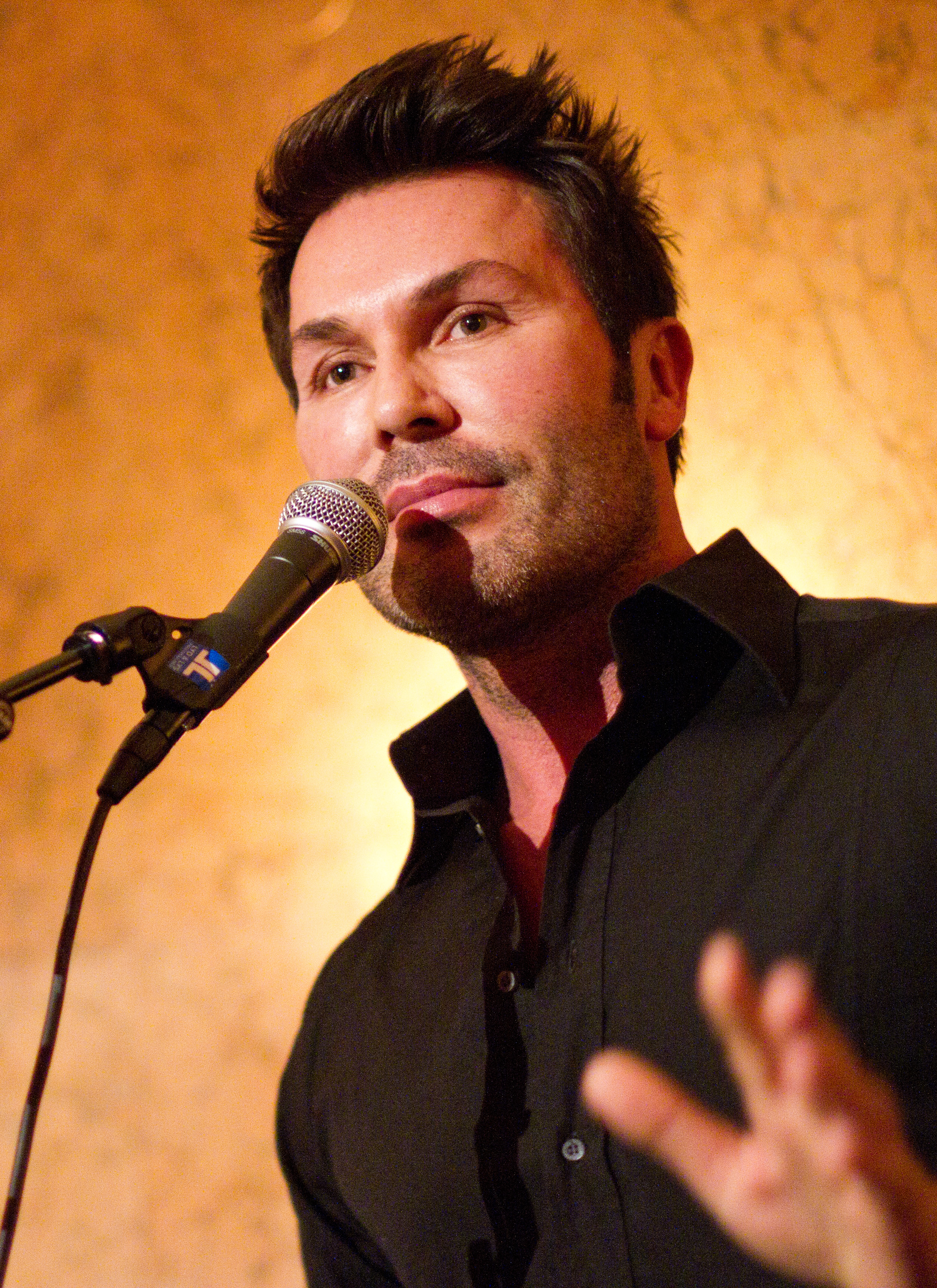 Jan Thomas Mørch Husby during the Girl Dinner in 2011 arranged by Start NHH.